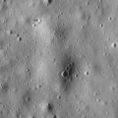 Last crater, Hadley–Apennine region, on the moon. The lunar module (LM) Falcon is visible near upper left corner, casting a shadow to the left. Sun elevation 14 deg., spacecraft altitude 101 km.